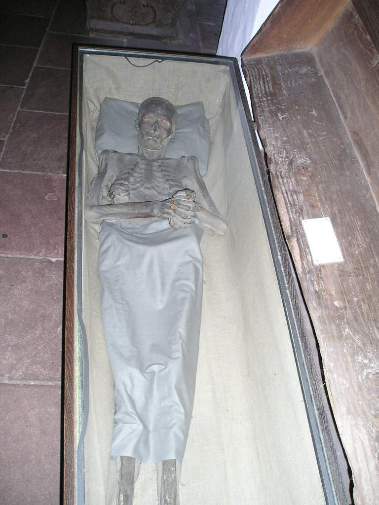 Mummy at the Bleikellercrypt of St. Petri Cathedral of Bremen, Germany